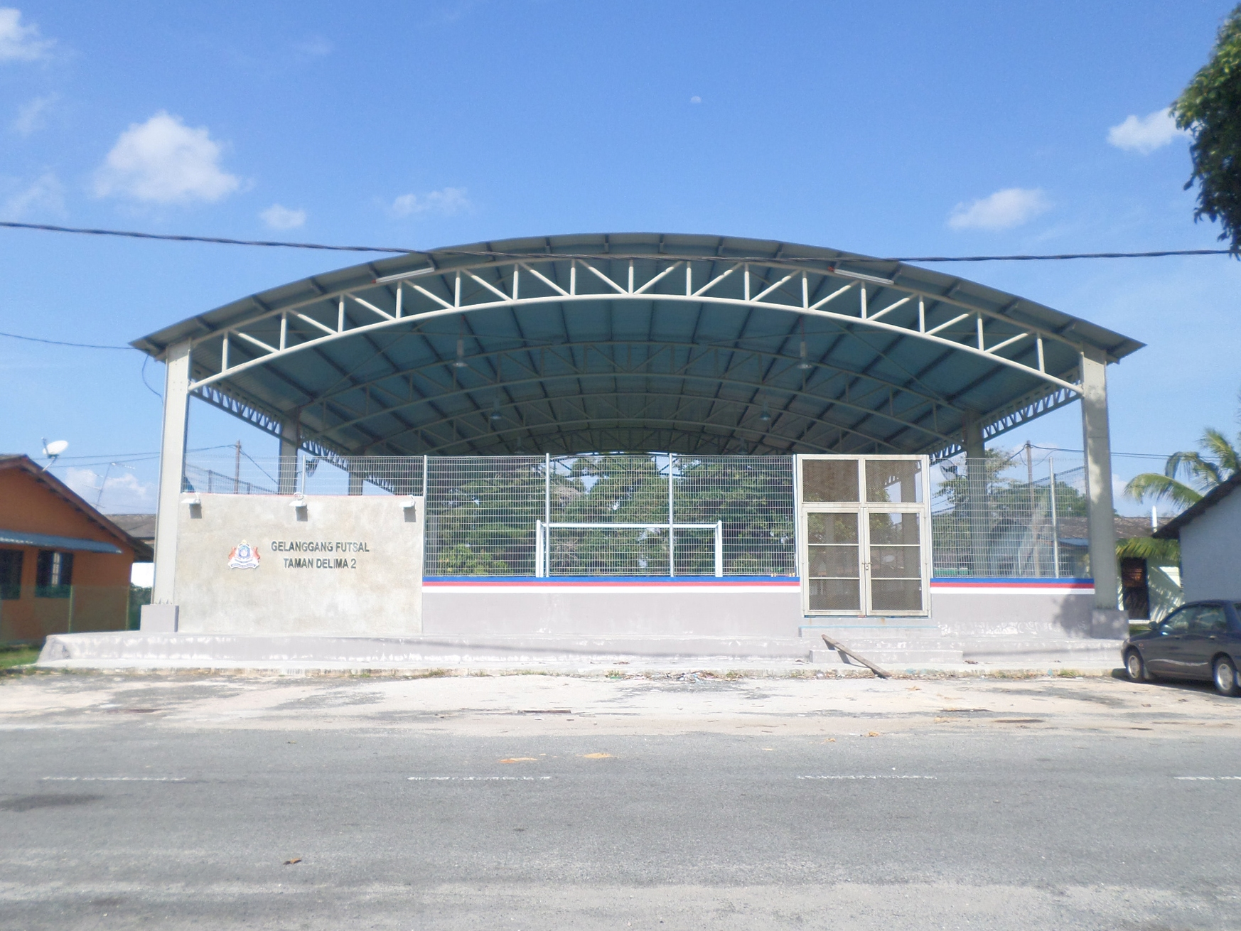 Taman Delima 2 Futsal Arena, Johor Bahru, Johor, Malaysia